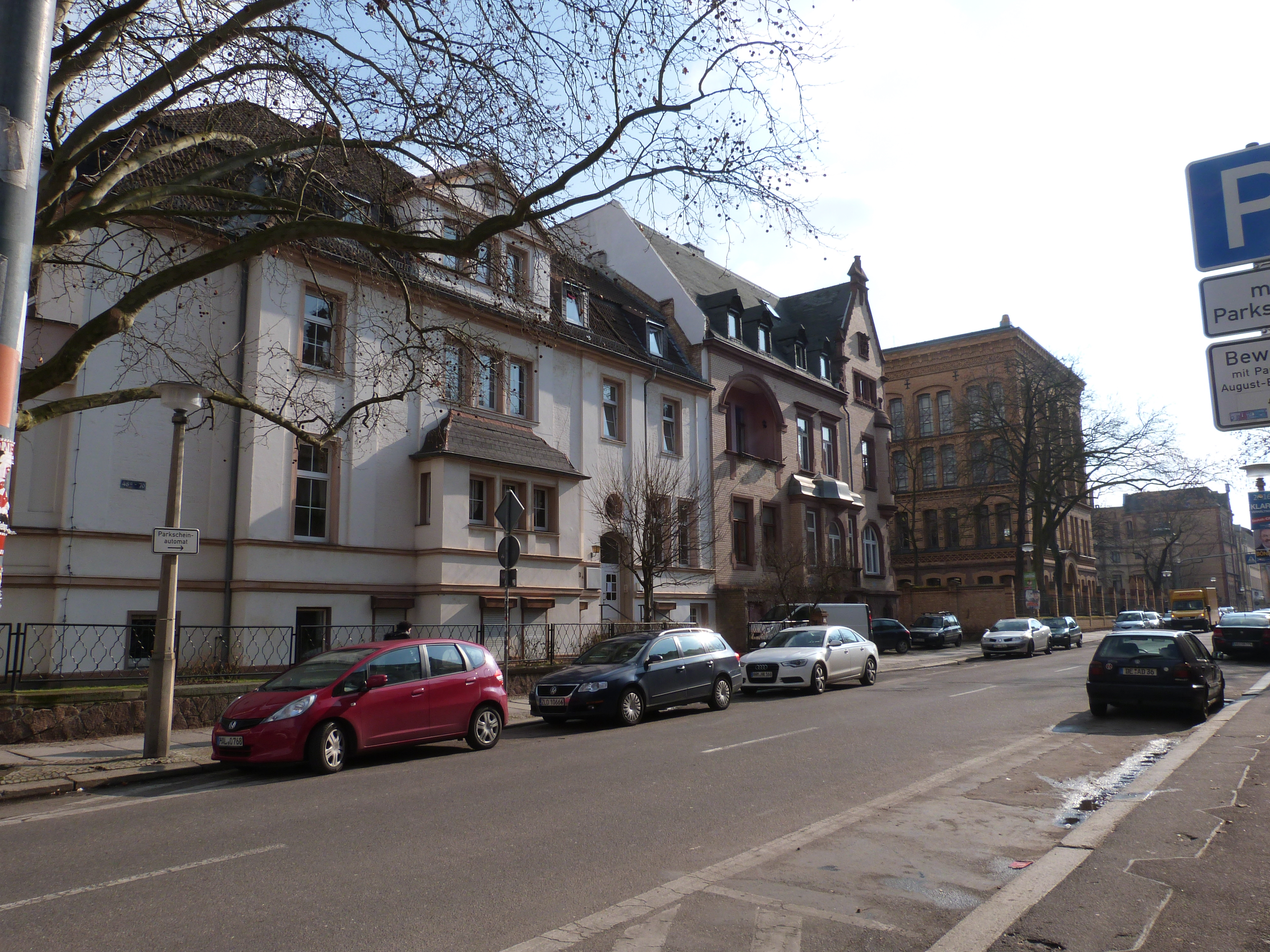 Street August-Bebel-Strasse No. 48a-49, Halle (Saale)